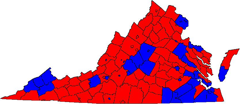 Map showing county choices of the 1994 Senate election in Virginia, between Democrat Chuck Robb and Republican Oliver North